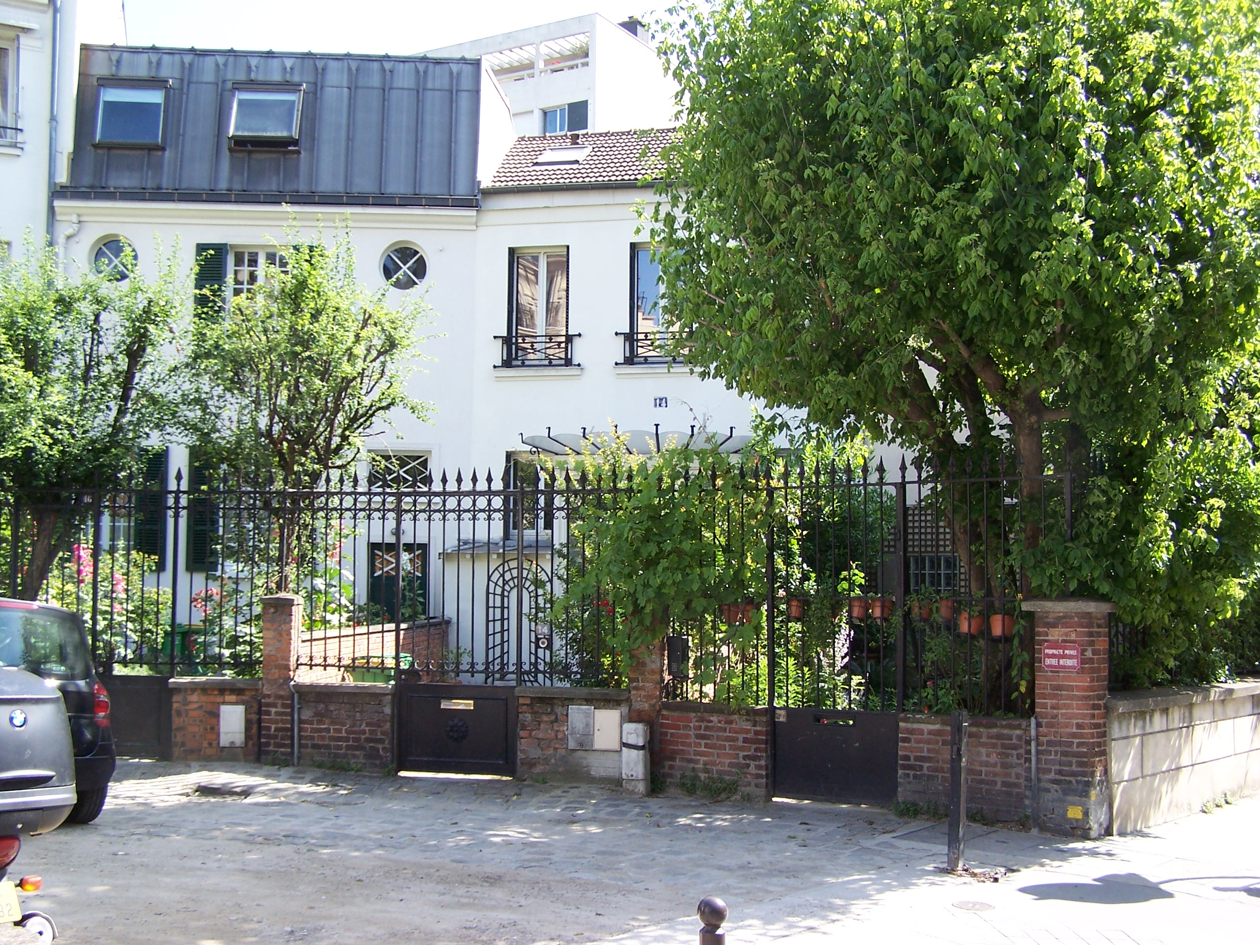 View of the little place at rue Hallé in Paris. The house at number 14th has been used as a filming place of the movie Le Bon Plaisir by Francis Girod